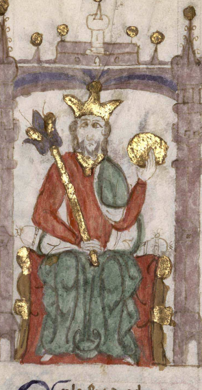 Garcia Iñiguez of Navarre